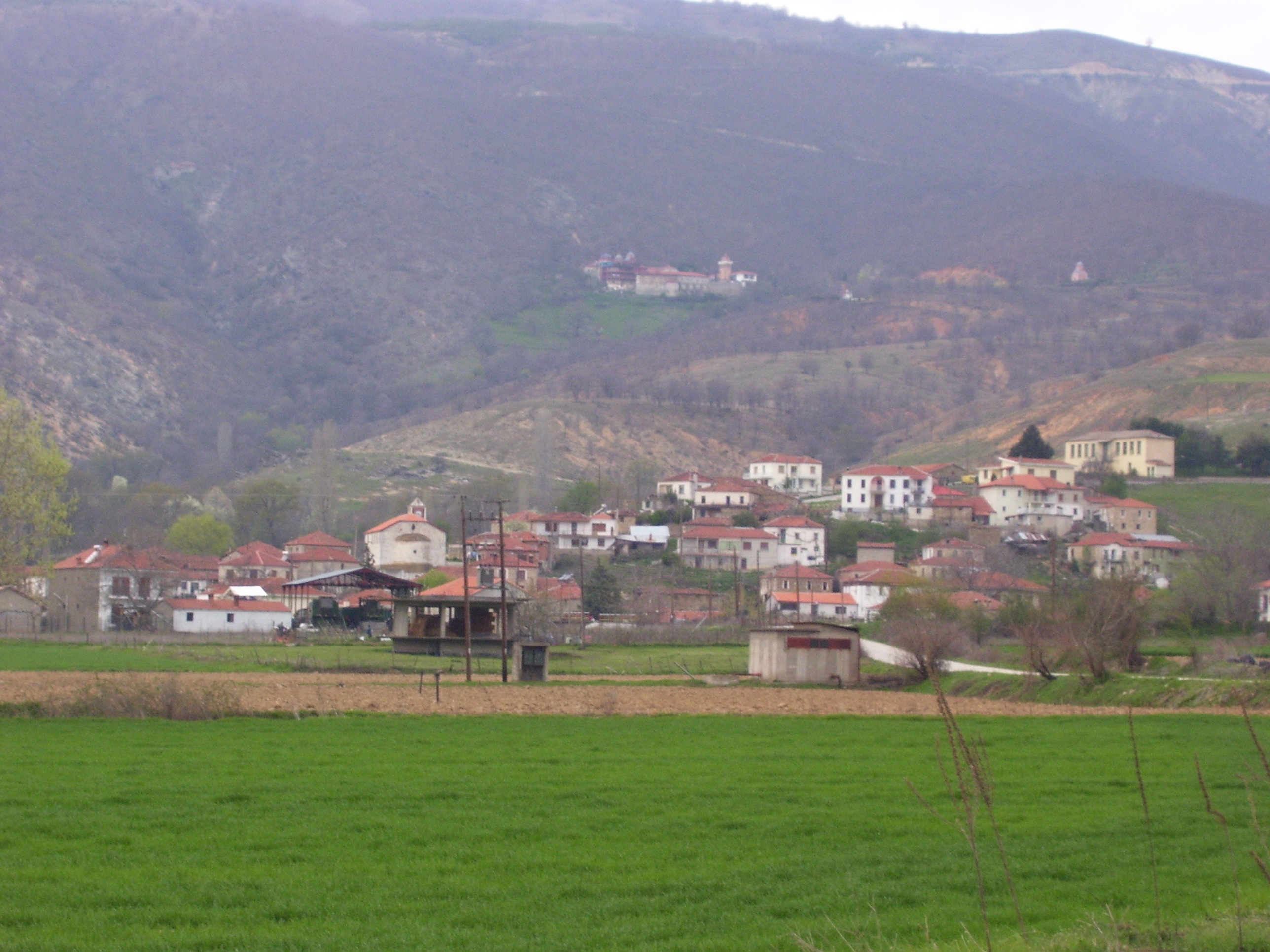 Village of Melisotopos, Greece with the Agii Anargiri monastery in the Kastoria prefecture.